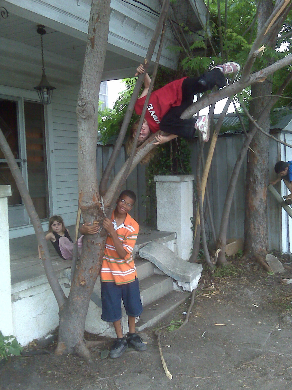 "Climbing". Children in tree in front of boarded up house, Mid-City New Orleans, April 2009. "The neighbor kids love to play on the porch and in the trees in front of Craig's abandoned house. I'm glad the kids have a place to play, but I kind of feel sorry for the trees as they've lost a lot of bark and branches. "